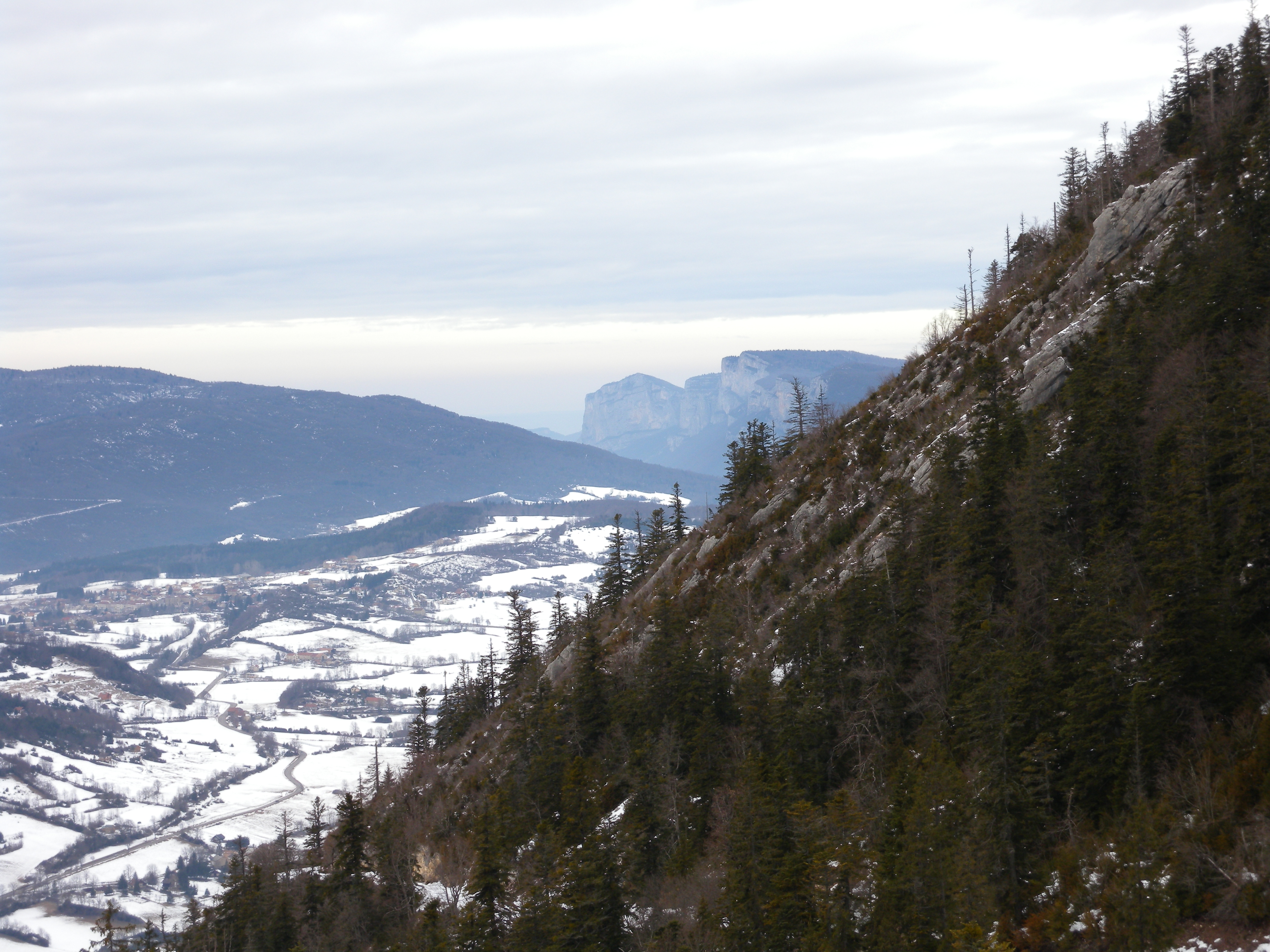 Saint-Agnan-en-Vercors